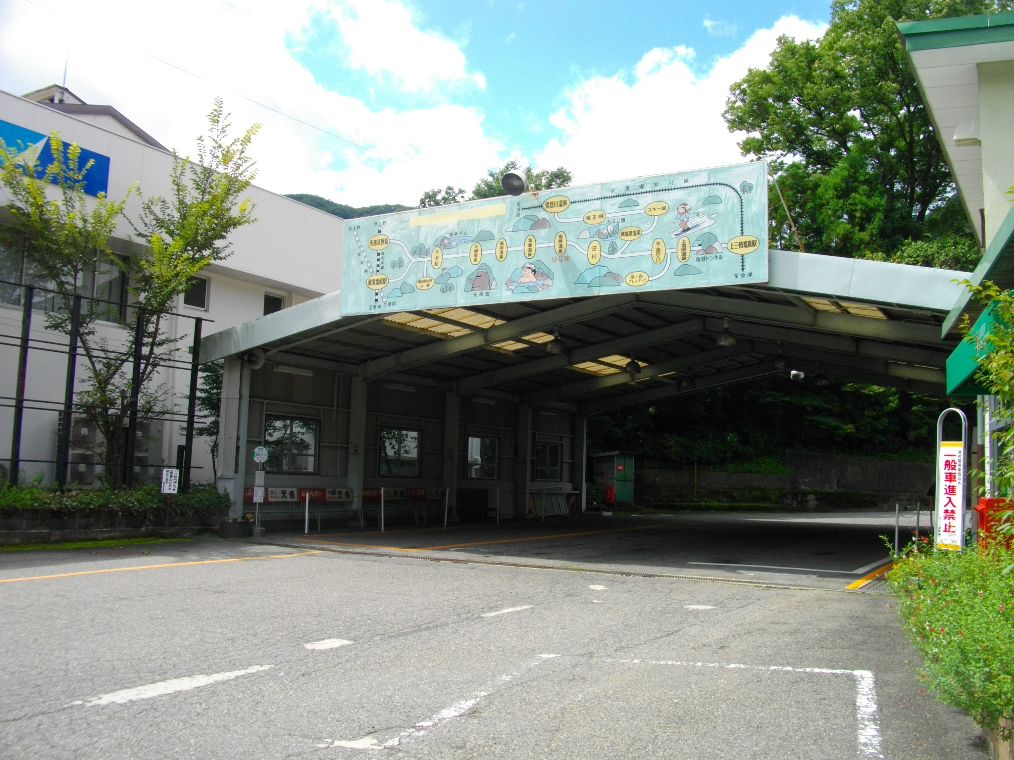 Shiobara Onsen Bus Terminal